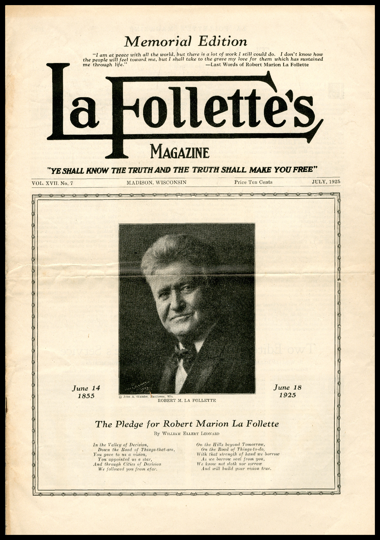 Cover of "Memorial Edition" of LaFollette's Magazine, July 1925.